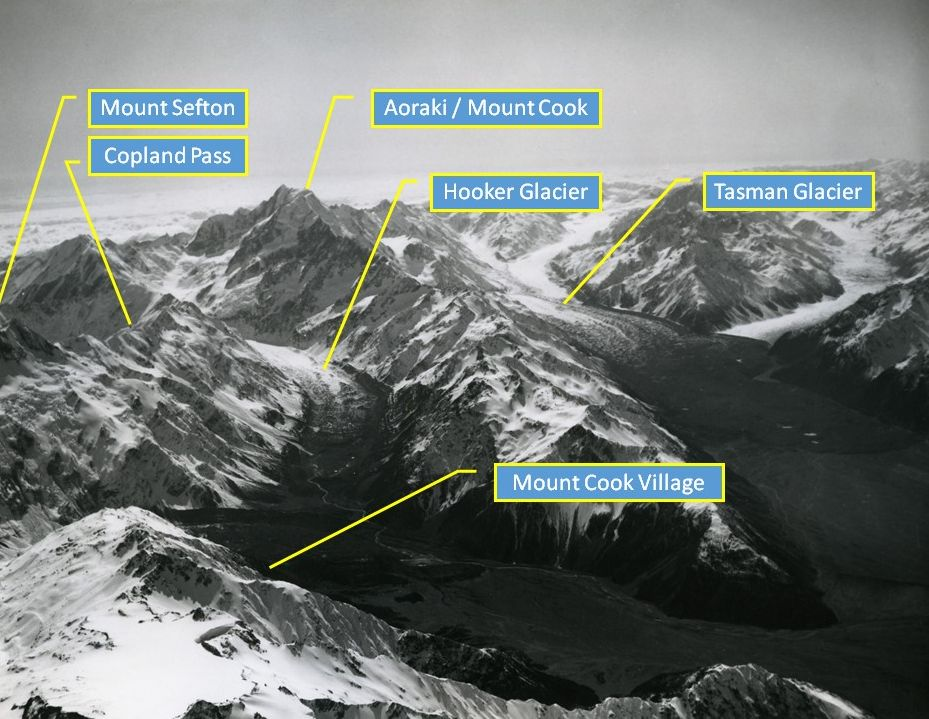 Derivative of another file on Commons with labels added. The image is from the National Publicity Studios photo collection at Archives NZ. Title Southern Alps Publicity Caption Southern Alps aerial, showing Mt. Sefton on extreme left, Mt. Cook (centre) with Hooker, Tasman and Murchison Glaciers from left to right. Mt. Cook National Park. Photographer Mr. Nicholson. Photo taken in 1965. Archives New Zealand Reference: AAQT 6539 A77849